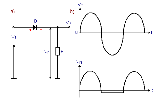 Ecreteur_negatif